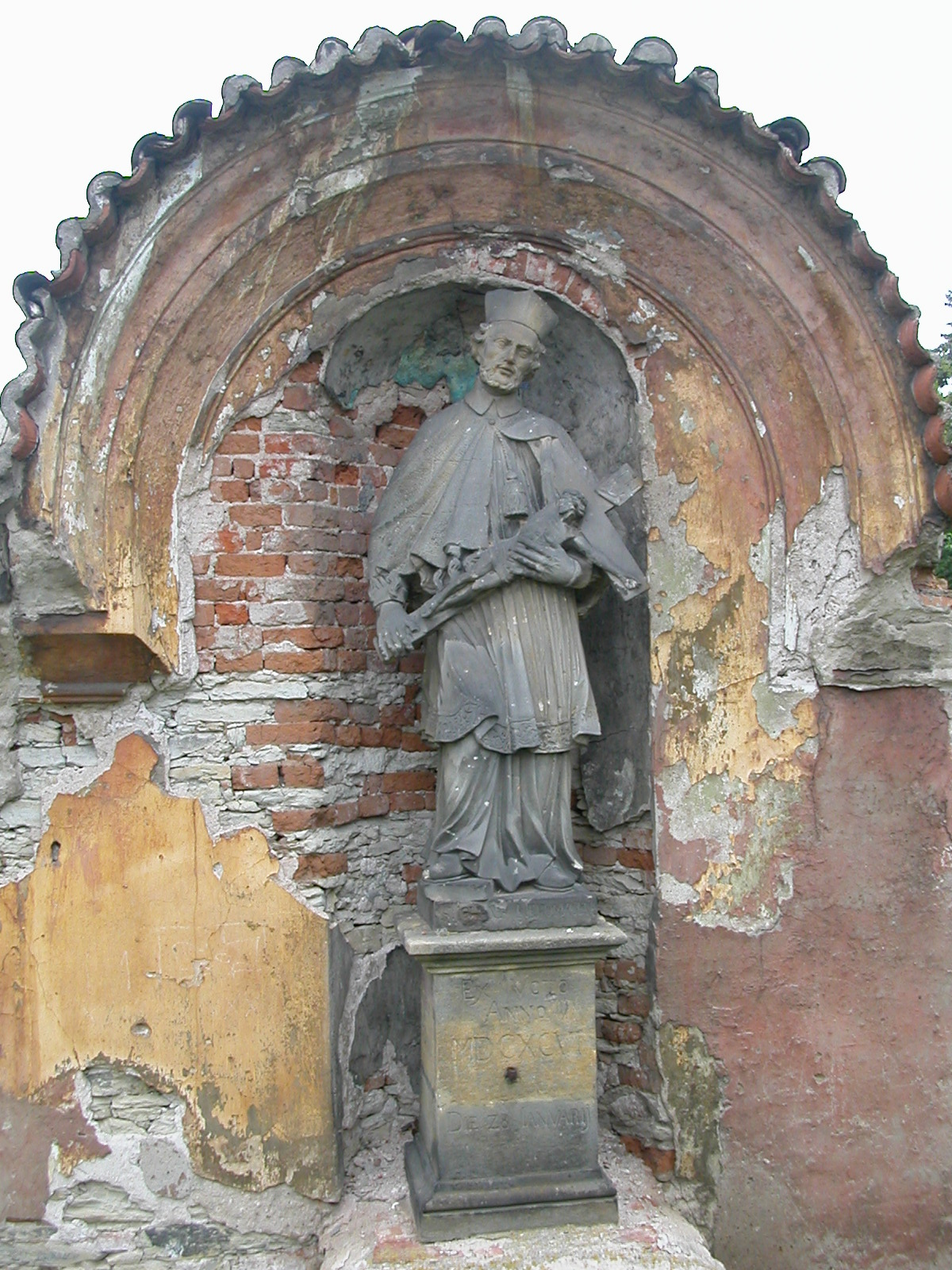 Statue of St. John of Nepomuk in Nymburk